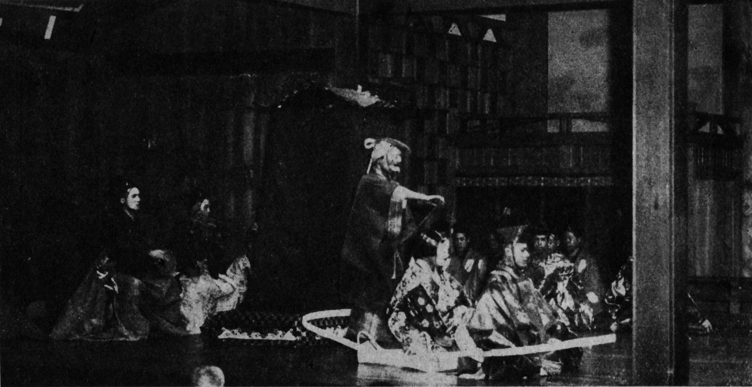 stage photo: Noh play Chikubushima, SAKURAMA Kintaro II